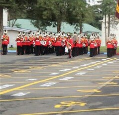 The Kenyan Army Band